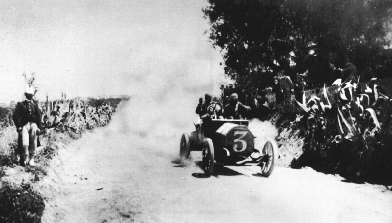 1906 Targa Florio winner Alessandro Cagno in Itala 3